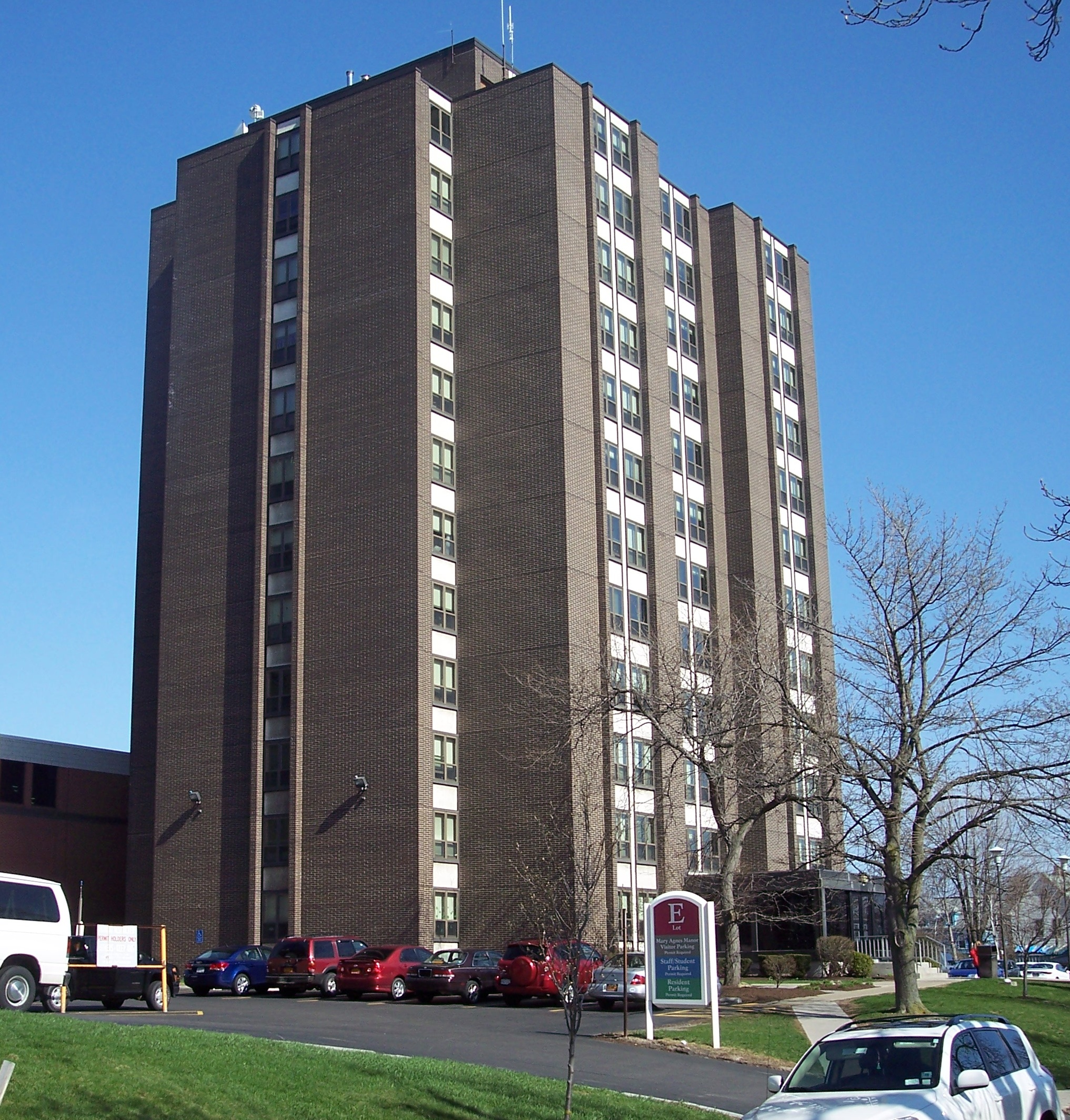 Marguerite Hall [D'Youville College dormitory], 505 Prospect Ave, Buffalo NY